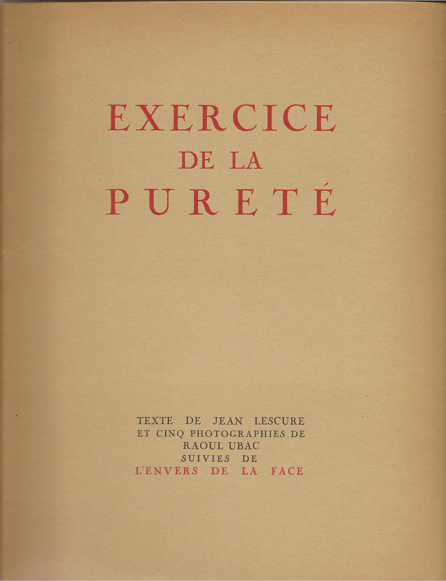 Couverture de "Exercice de la pureté" de Jean Lescure avec des photographies de Raoul Ubac, Paris, "Messages", 3ème cahier, 1942